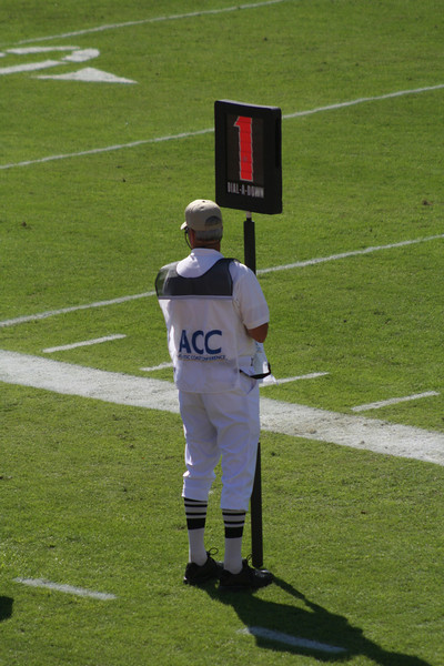 ACC official holds a down marker at a 2007 game between Virginia Tech and Duke University